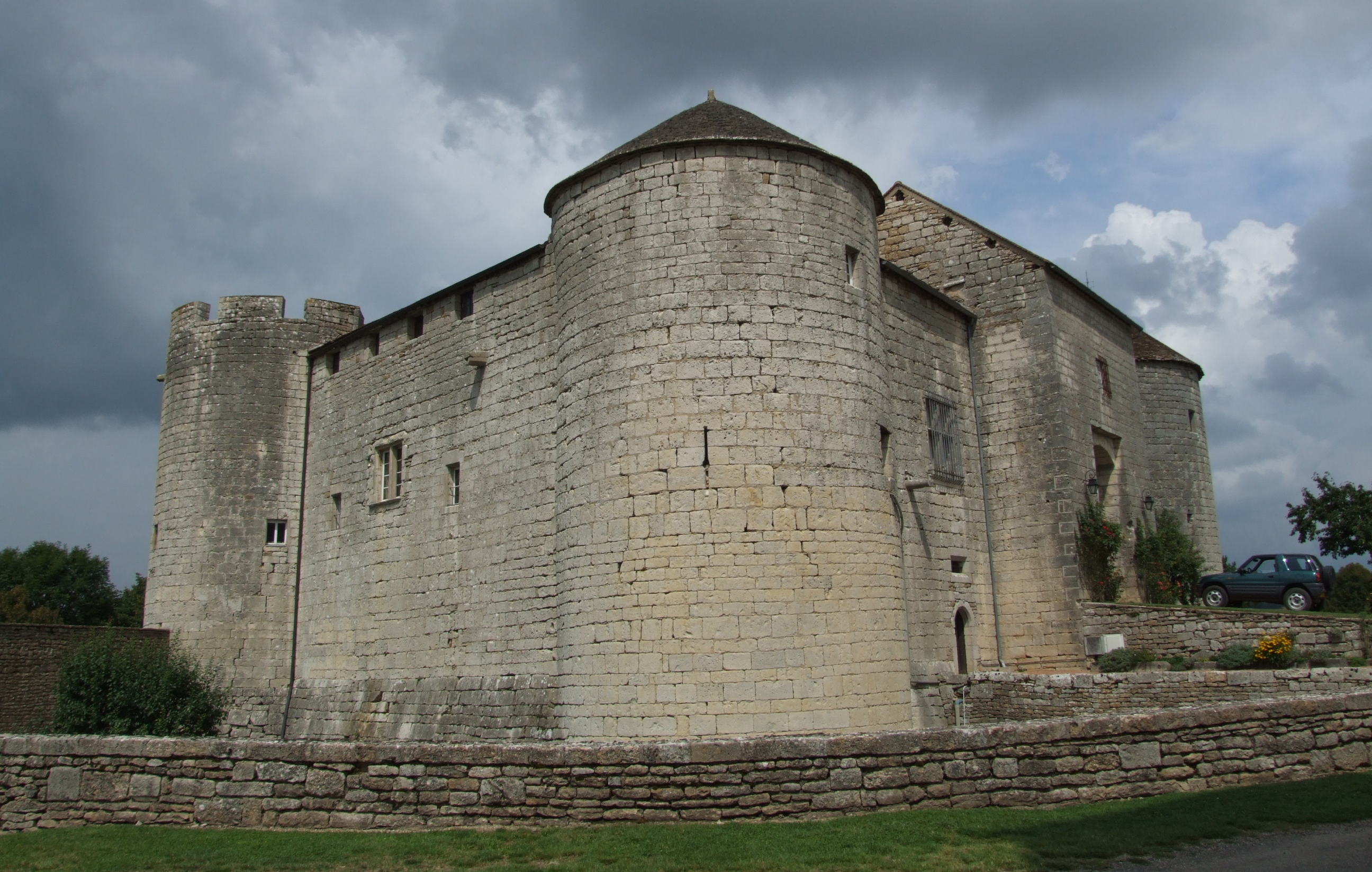 Mont-Saint-Jean castle, Burgundy, FRANCE